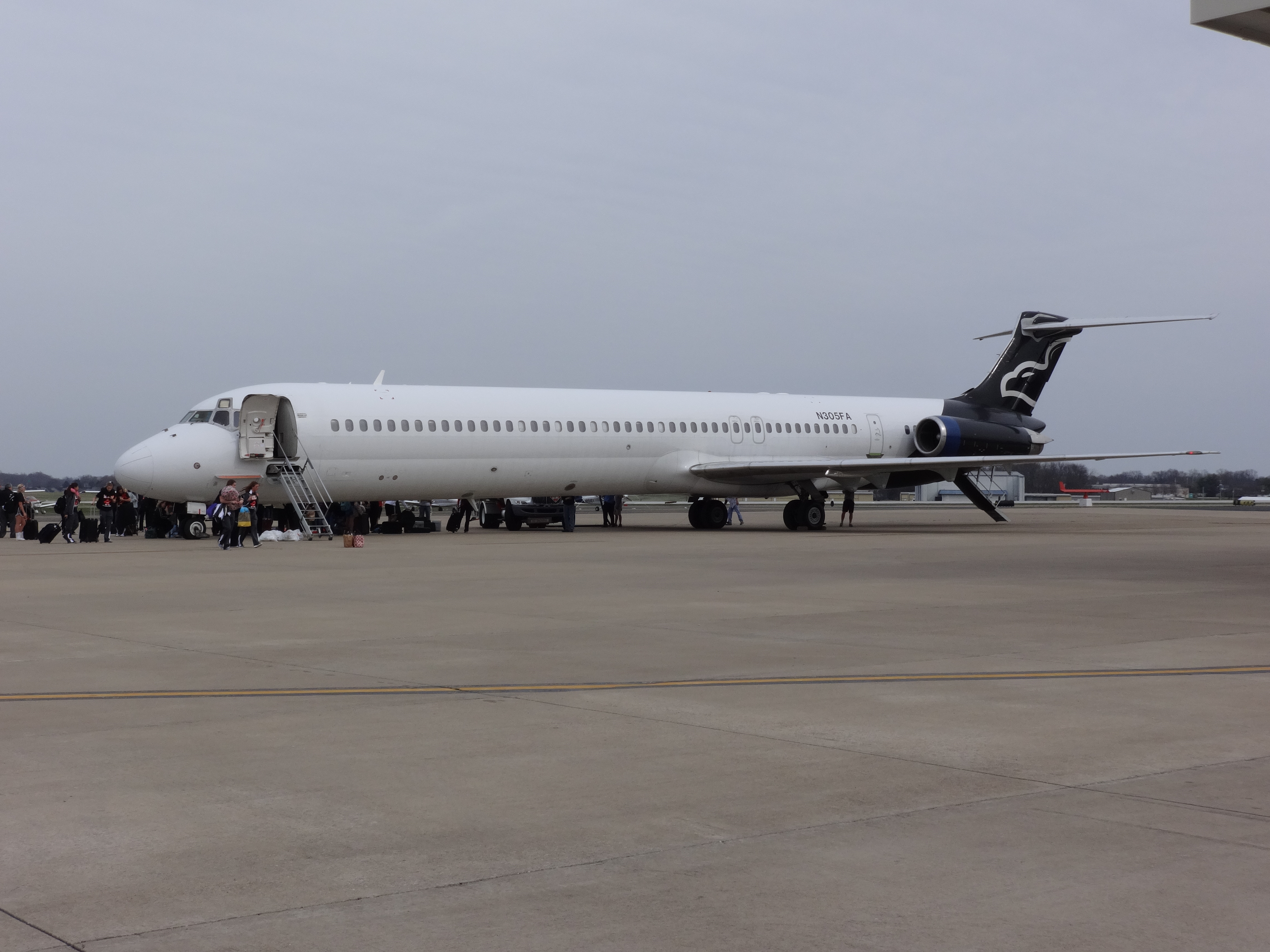 A Falcon Air MD-83 deboarding at KBWG Airport.